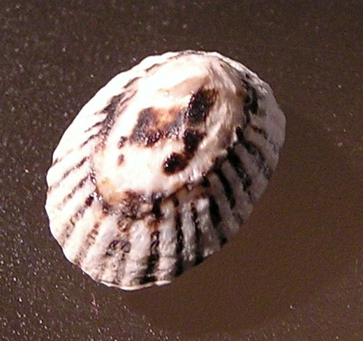 Notoacmea scopulina Oliver, 1926; a true limpet from the family Lottiidae; New Zealand